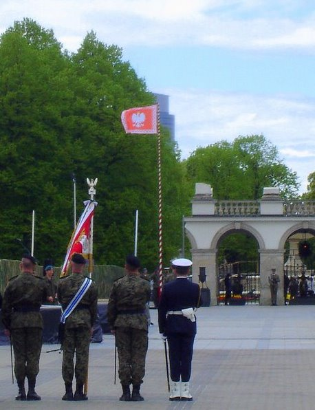 Jack of the President of the Republic of Poland flying in front of the Tomb of the Unknown Soldier in Józef Piłsudski Square in Warsaw during a rehearsal before Consitution Day celebrations